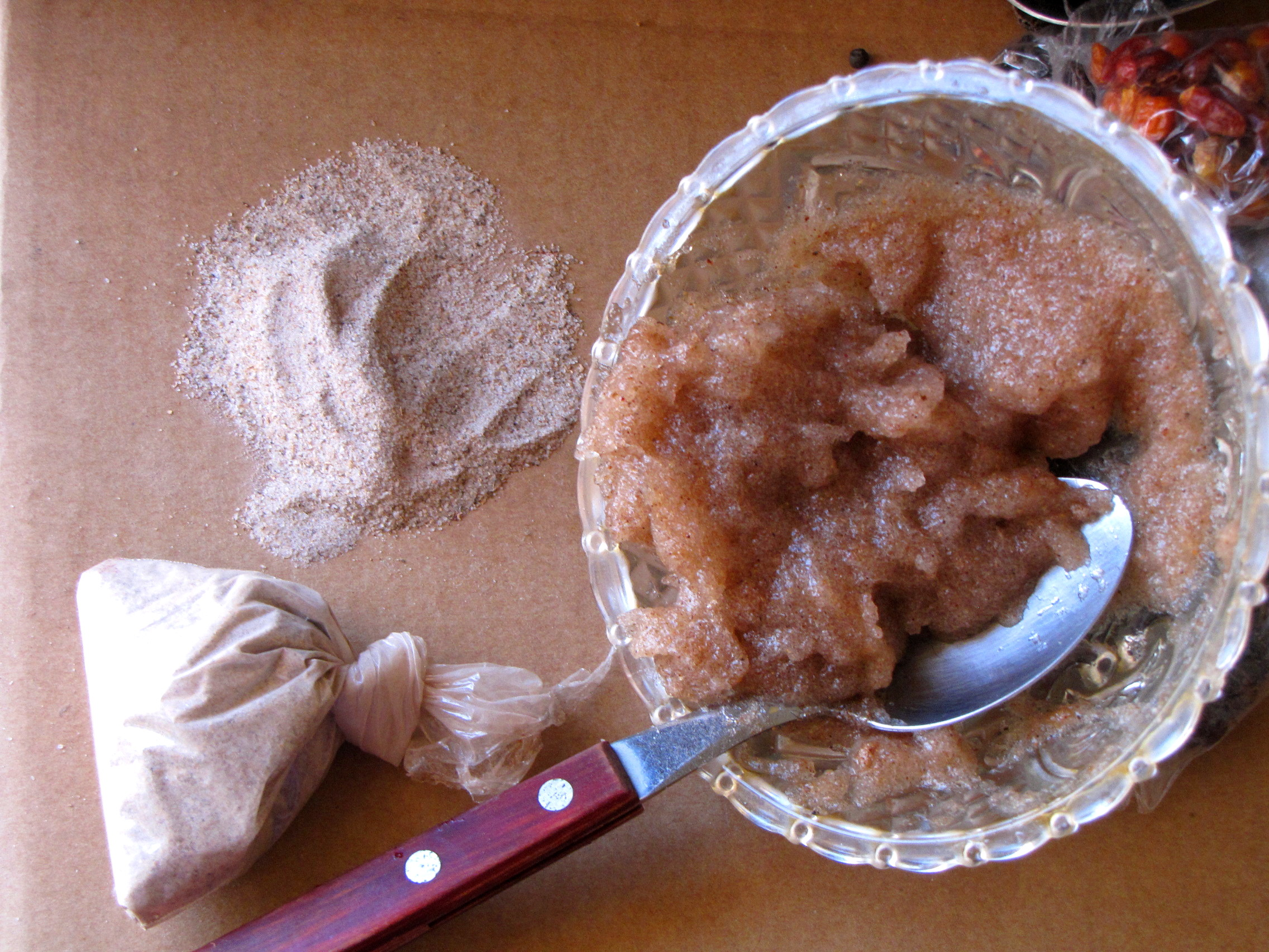 Lalo (in the Wolof language), made from the dried sap of the Adansonia digitata baobab tree, sold in the market powdered, then mixed with water to make a semi-transparent, sticky and gelatinous paste, used especially for millet couscous. This is an image of food from Senegal